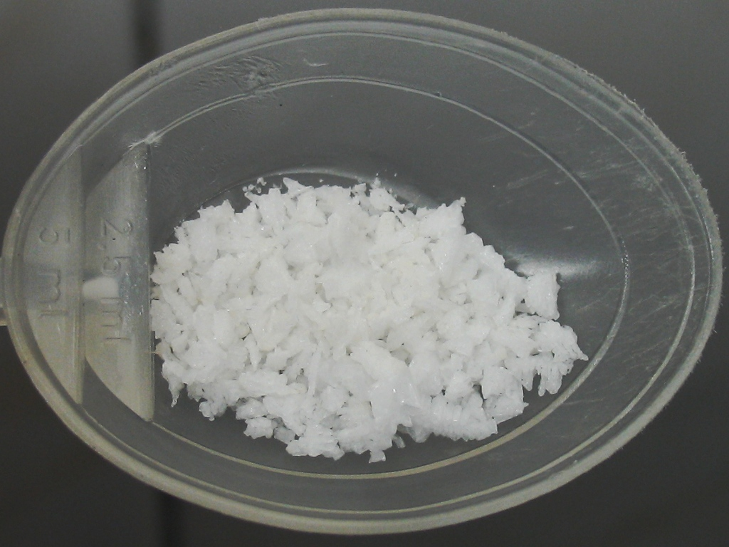 Barium nitrate crystals